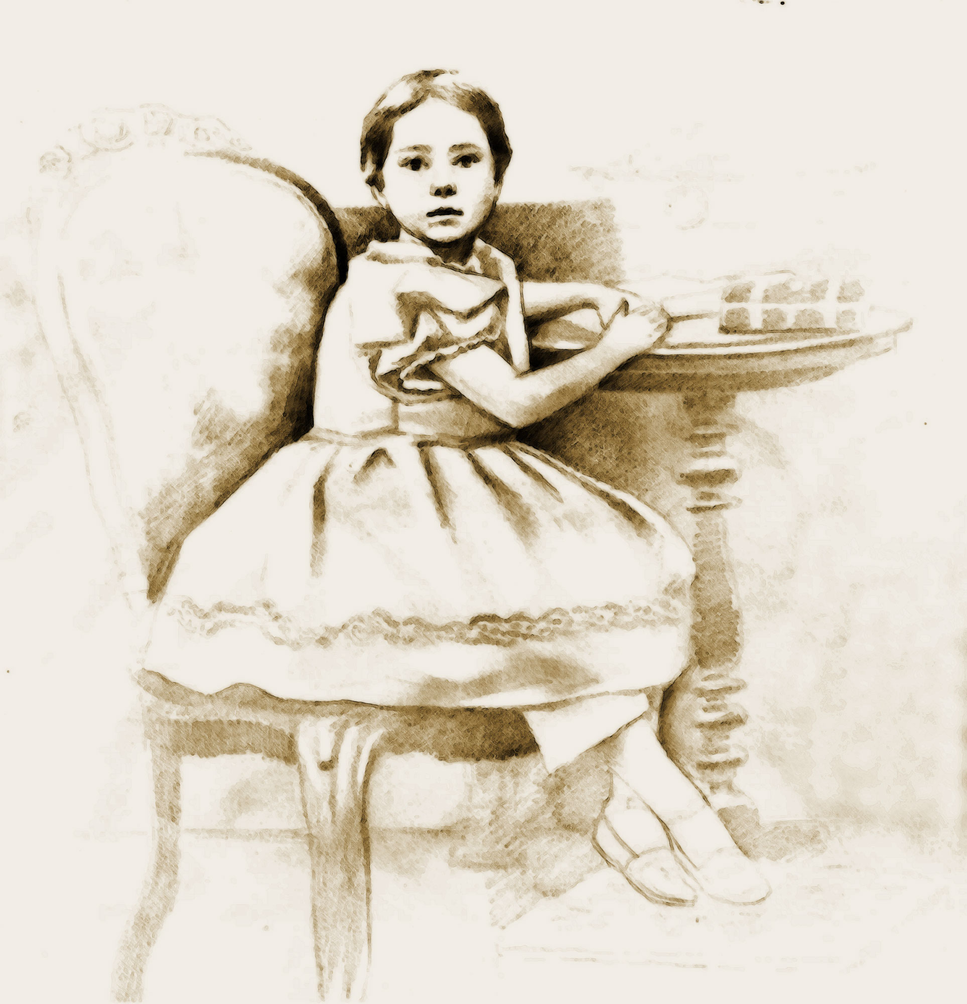 Sketch by Brian York of Grace Dyer Taylor